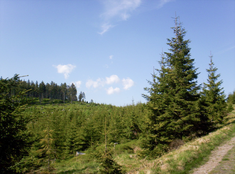 Sucha Kopa mountain, Bialskie Mountains, Sudety Mountains, Poland